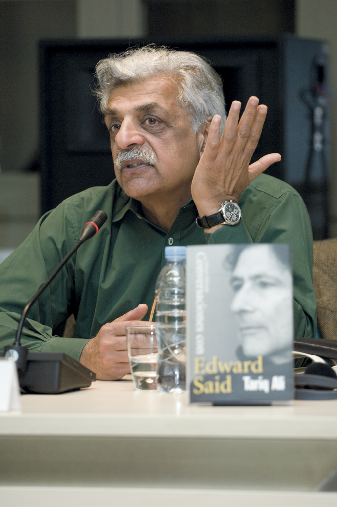 Tariq Ali